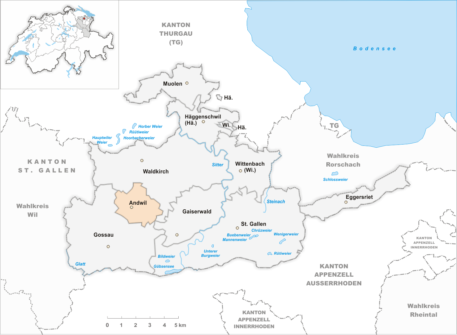 Municipality Andwil